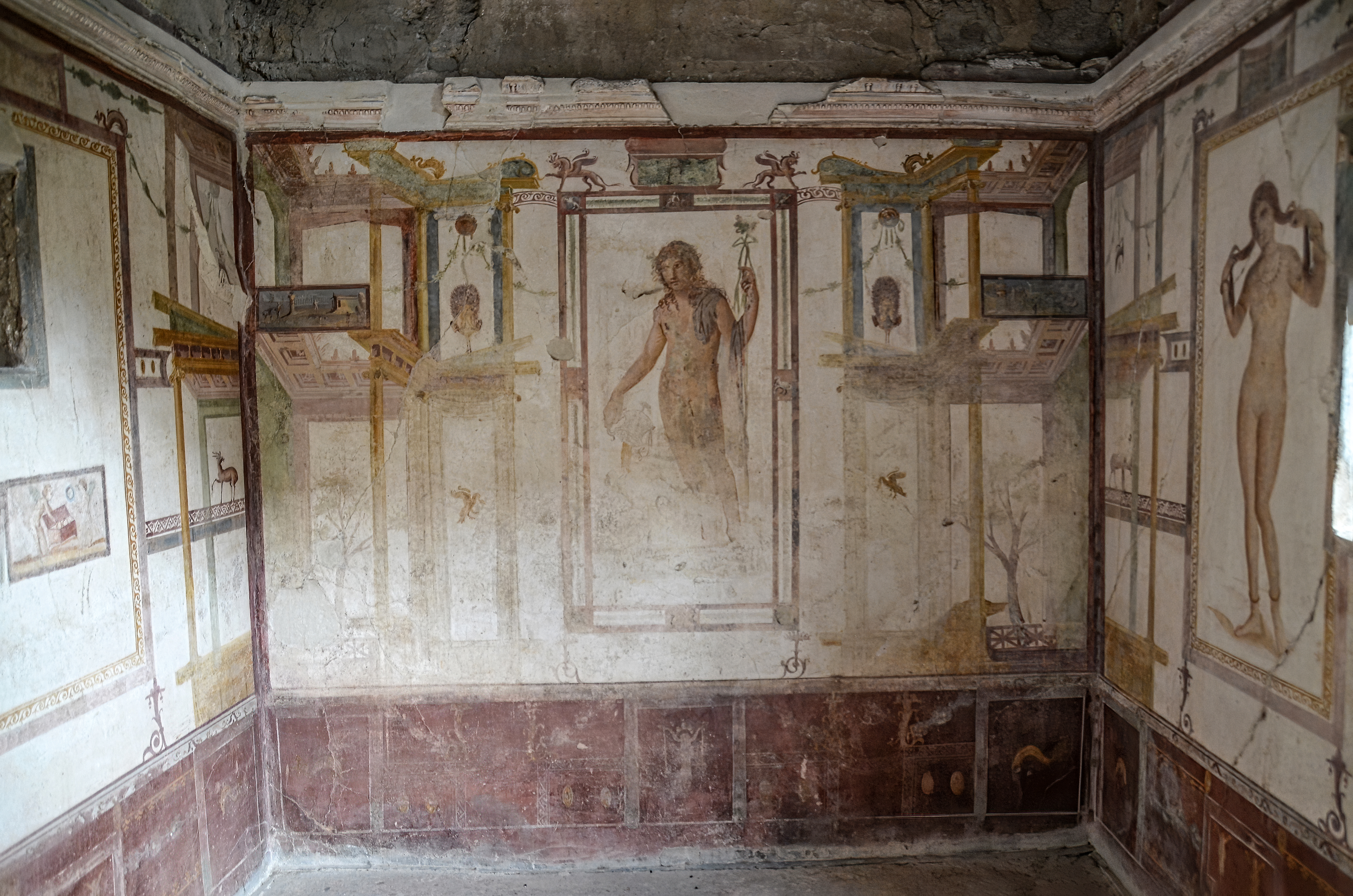 The panel on the south wall contains a male nude (perhaps Bacchus) while the equivalent panel on the west wall displays a female nude (perhaps Venus). 2nd century BCE - 1st century CE Source